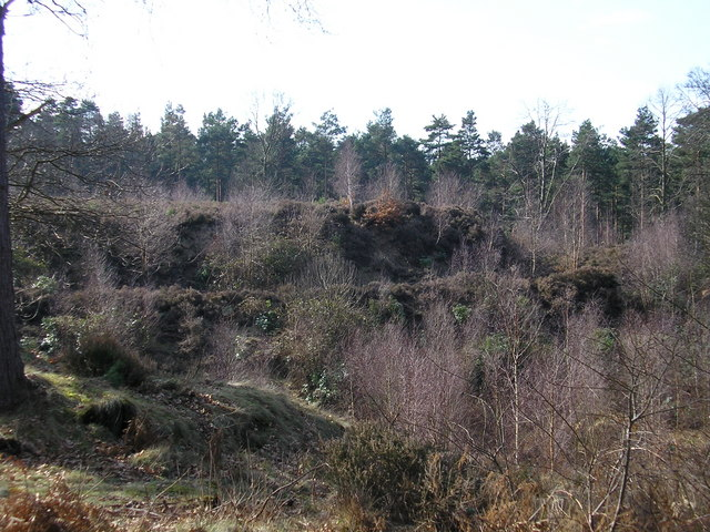 Caesar's Camp The huge banks of this Iron Age hill fort can clearly be seen. Definitely not Caesar's though!